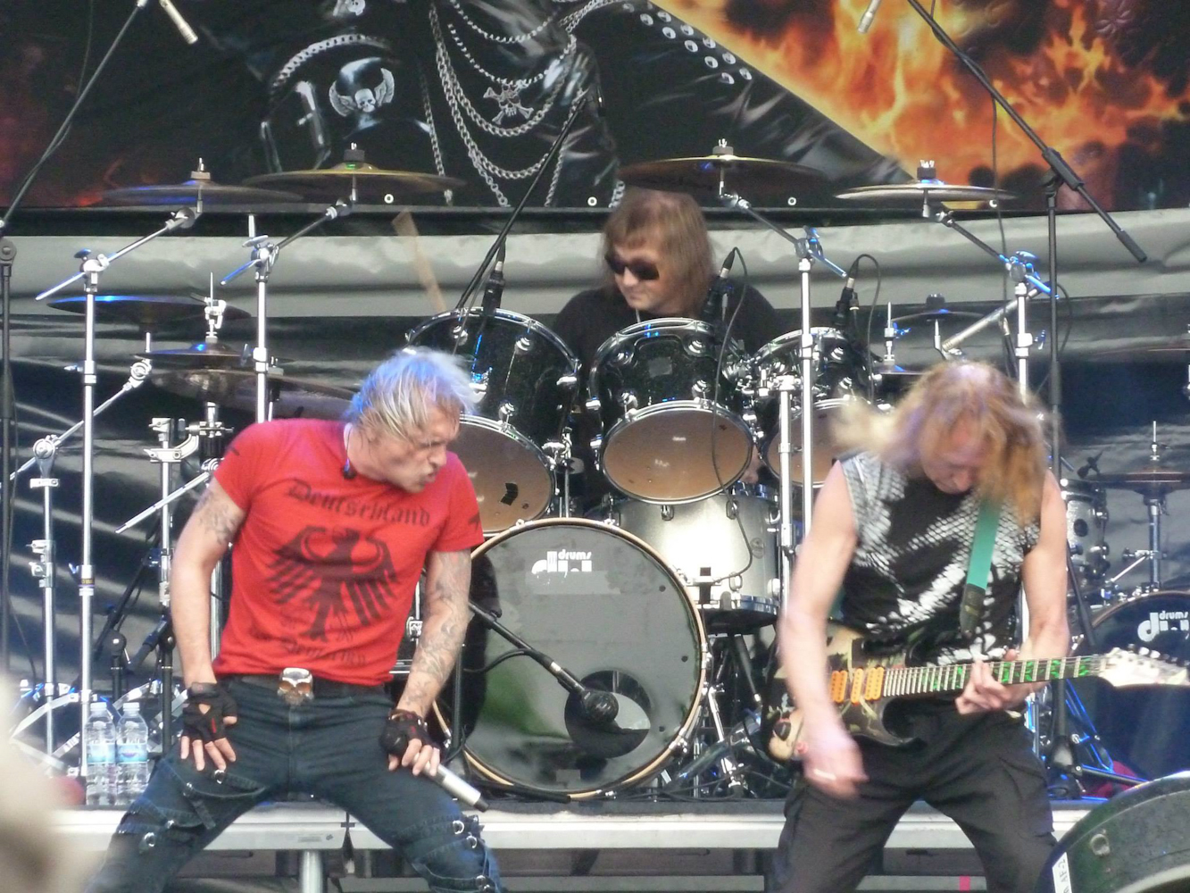 The Russian rock band Alisa performing at Kavarna Rock Fest 2013, Bulgaria.